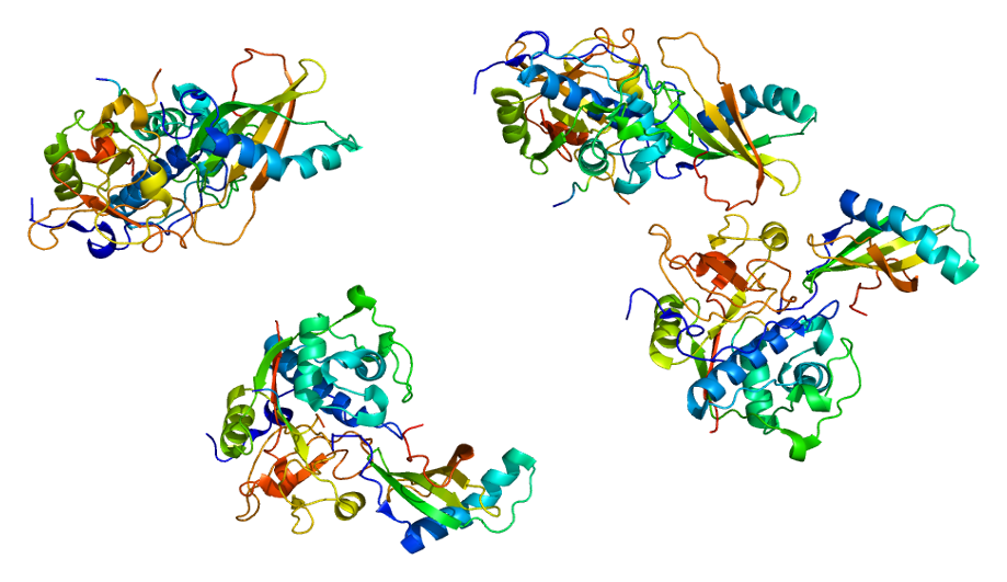 Structure of the CTSH protein in complex with stefin A (inhibitor). Based on PyMOL rendering of PDB 1nb3.